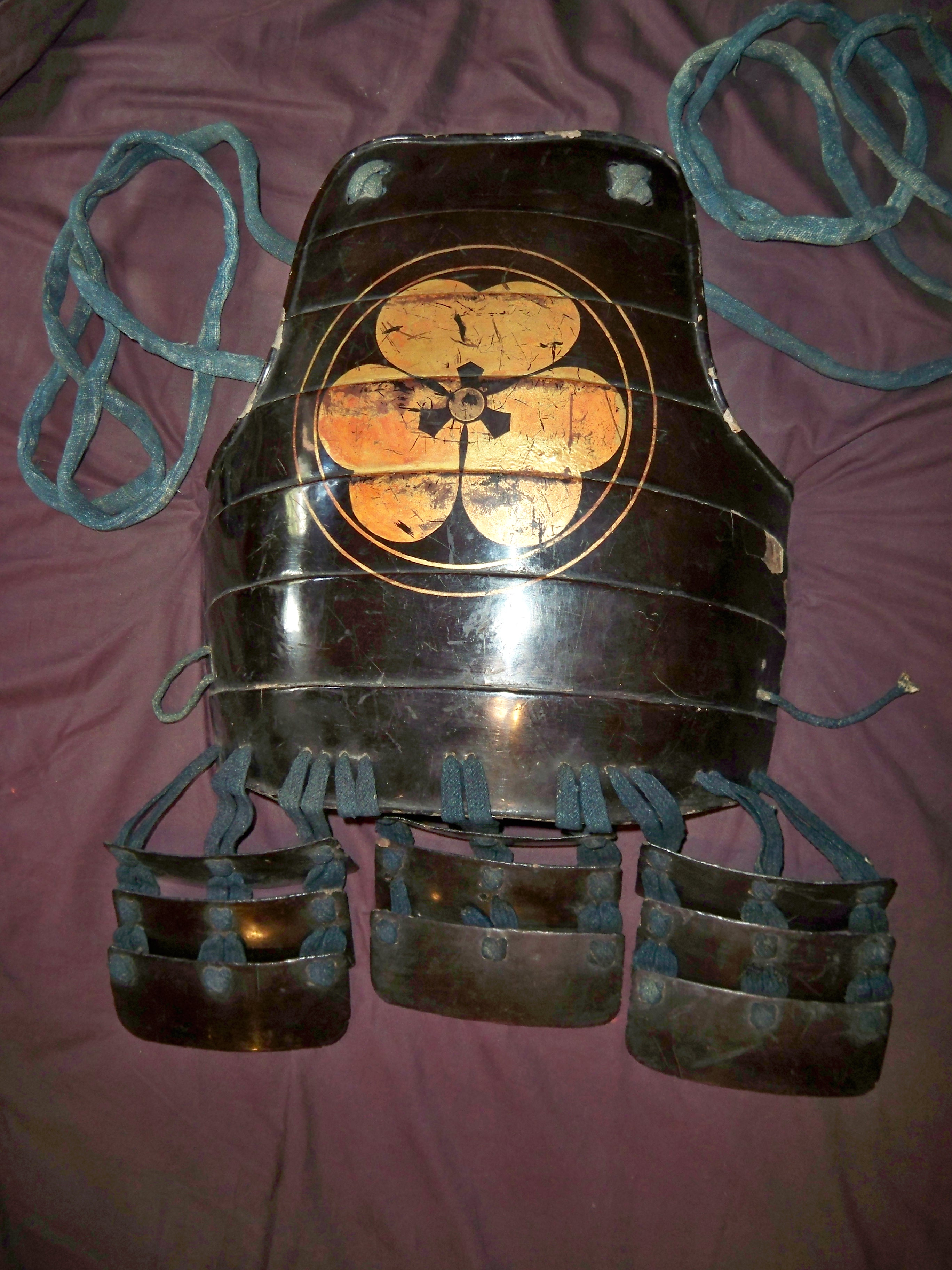 Antique Japanese (samurai) one piece front chest armor (hara-ate dou(dō)). Iron plates riveted together and lacquered. This type of armour was used by foot soldiers ashigaru.